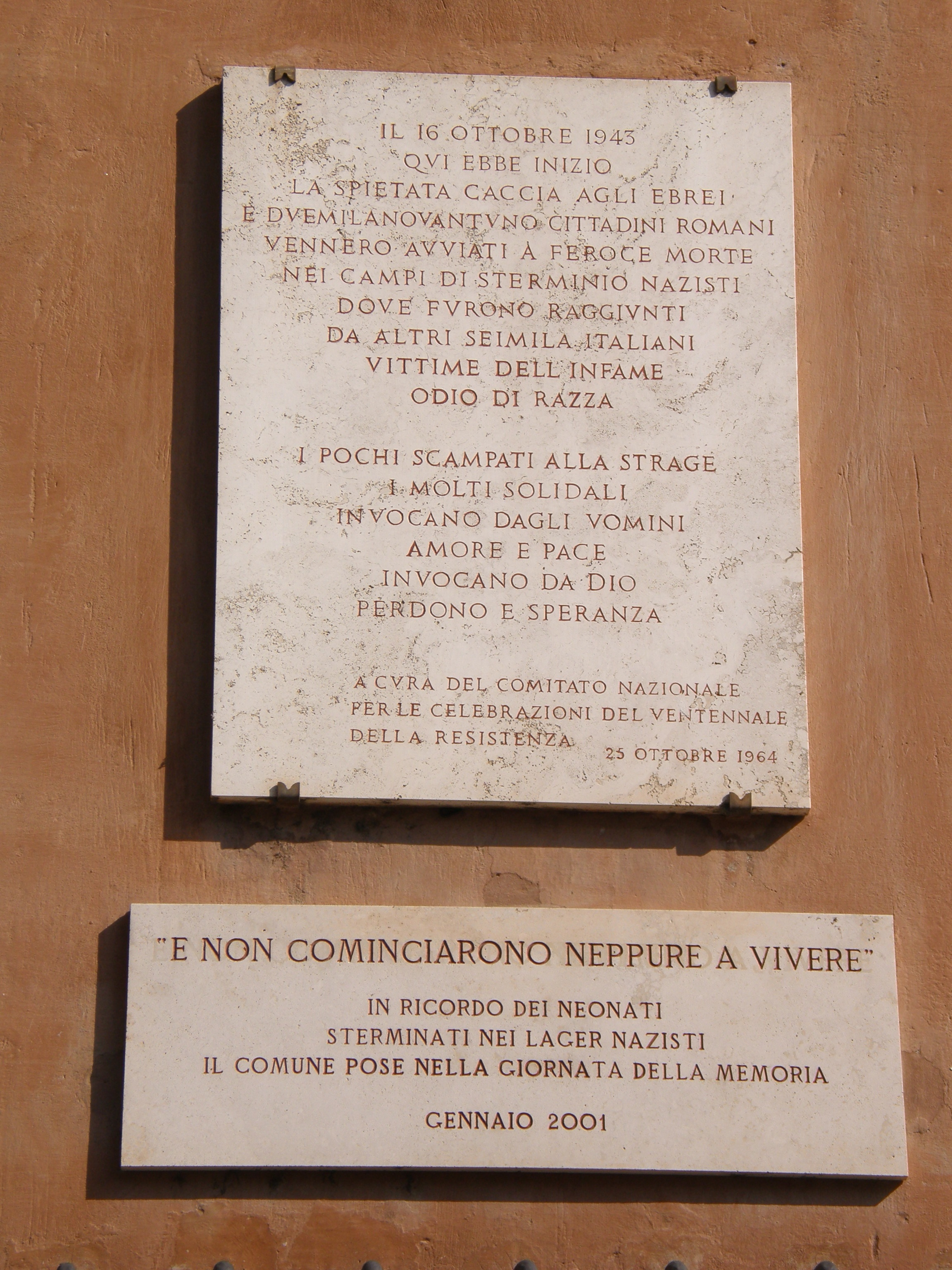 A Holocaust memorial in Rome's Jewish ghetto, Italy. Translation of text in